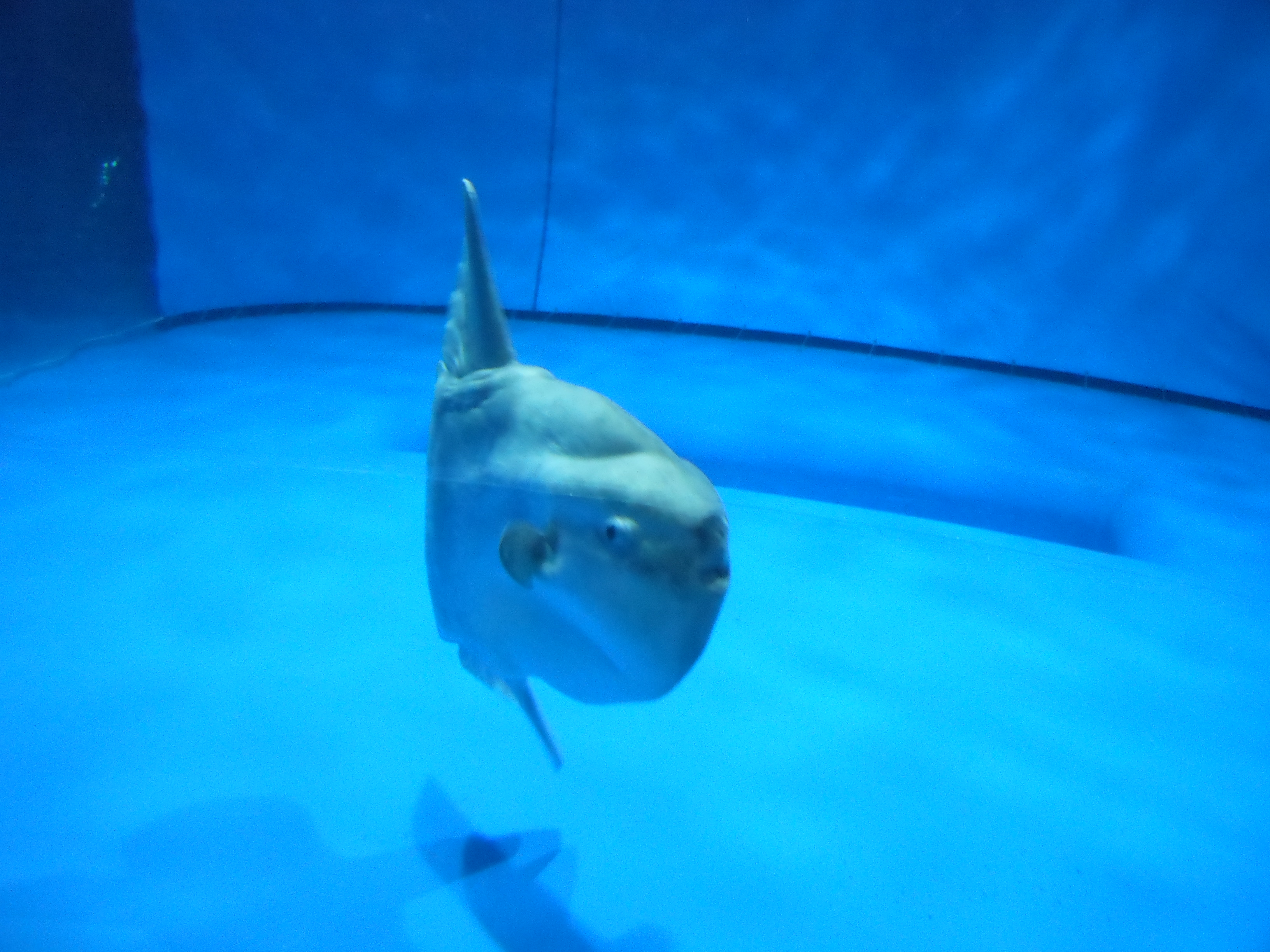 It is an ocean sunfish in Aaua world Oarai, Japan.